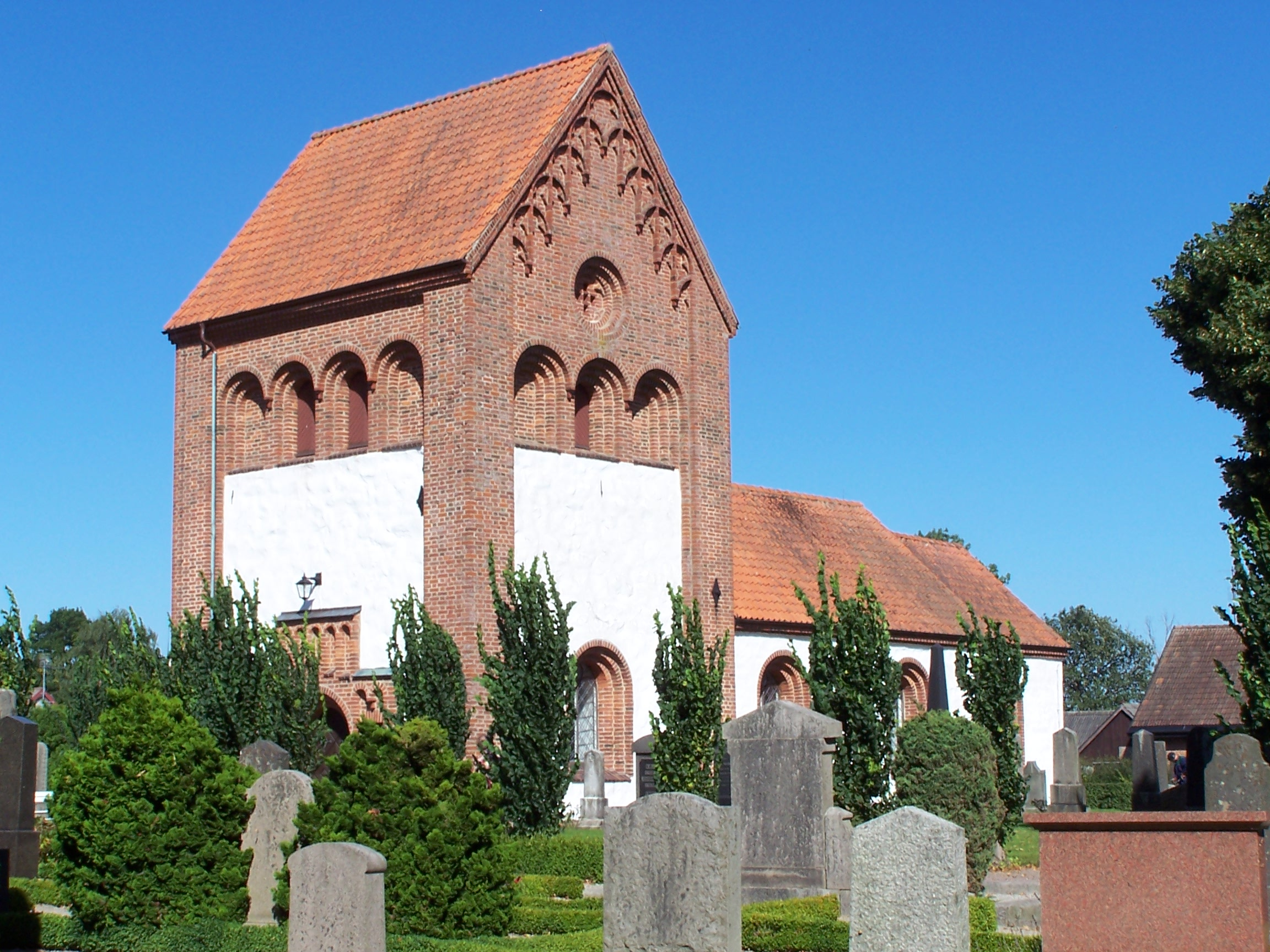 Norra Skrävlinge kyrka - Exterior from southwest.